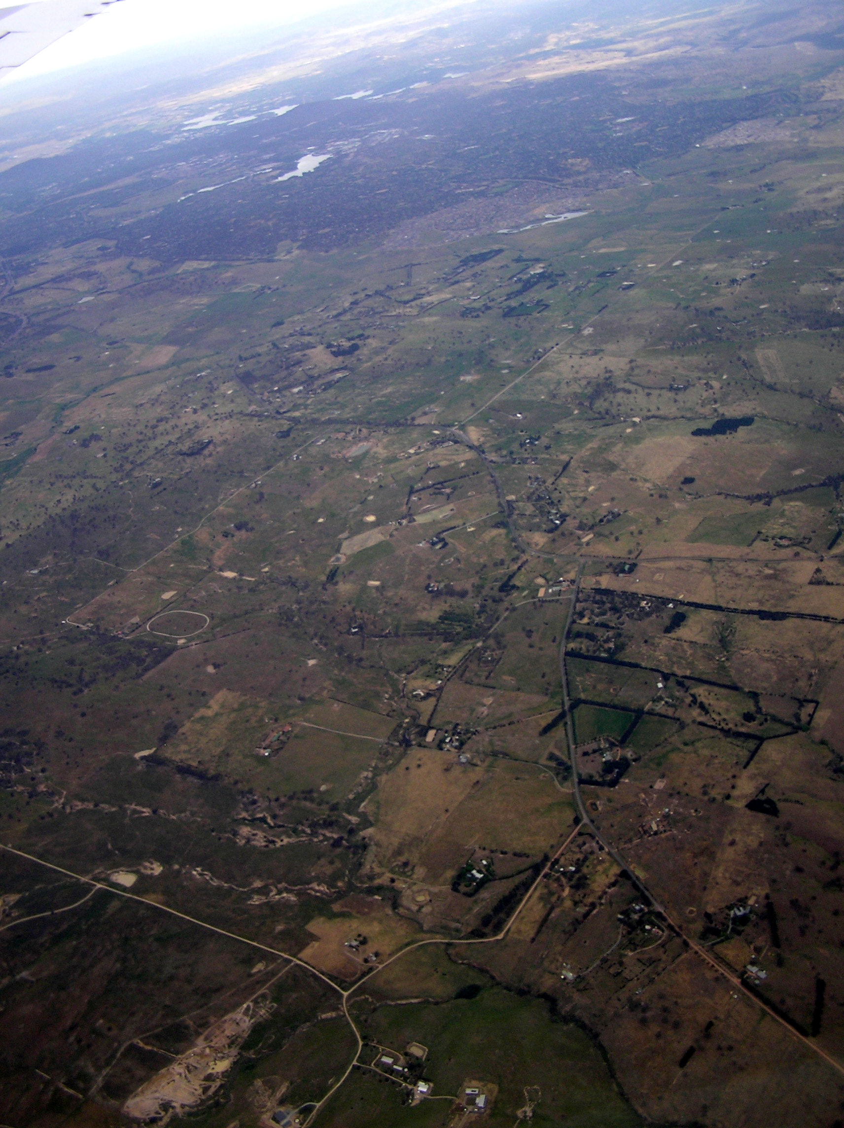 Aerial photo of Wallaroo New South Wales from north west, with Belconnen and Canberra in the background